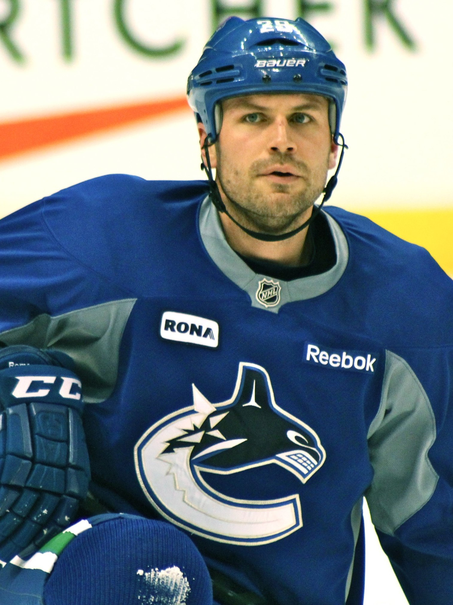 Vancouver Canucks defenceman Aaron Rome during a practice on March 9, 2012.